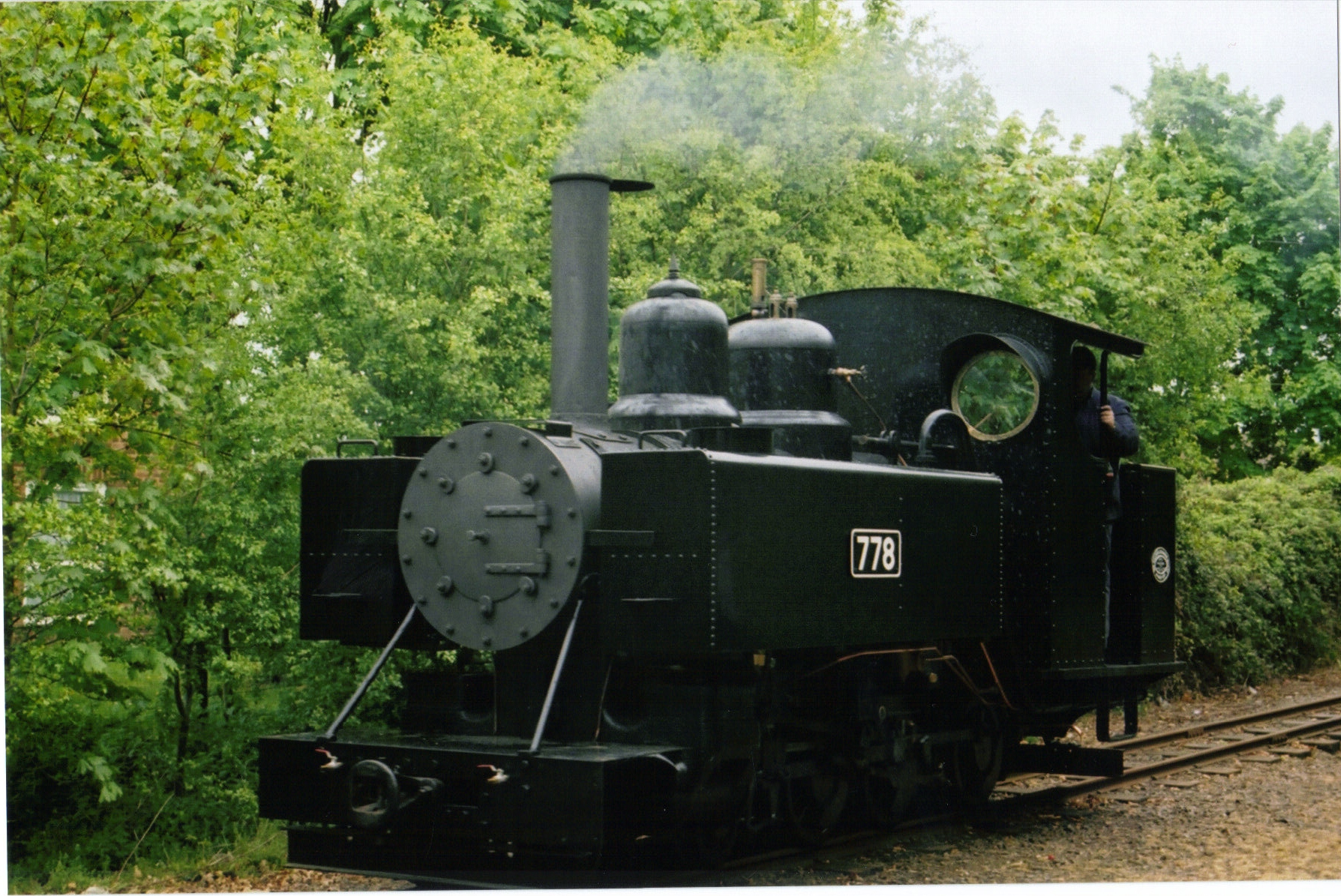 This 60-cm gauge steam locomotive is one of 495 manufactured by Baldwin Locomotive Works for the War Department Light Railways supplying the front-line trenches of World War I. It has been preserved on the Leighton Buzzard Light Railway.